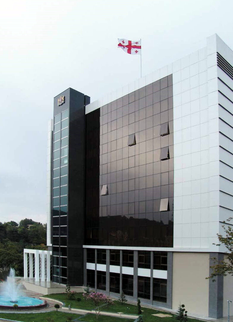 Ministry of Defense of Georgia headquarters in Tbilisi, 2007